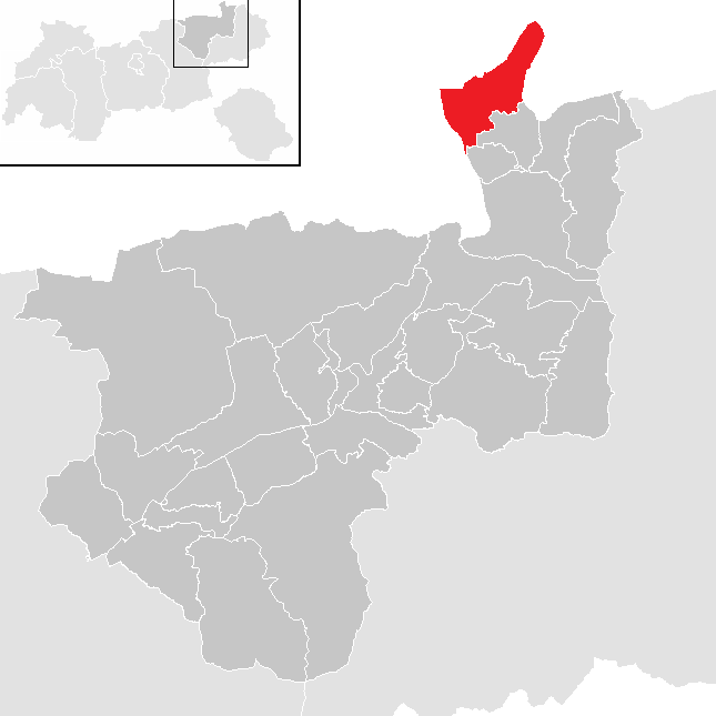 District Kufstein